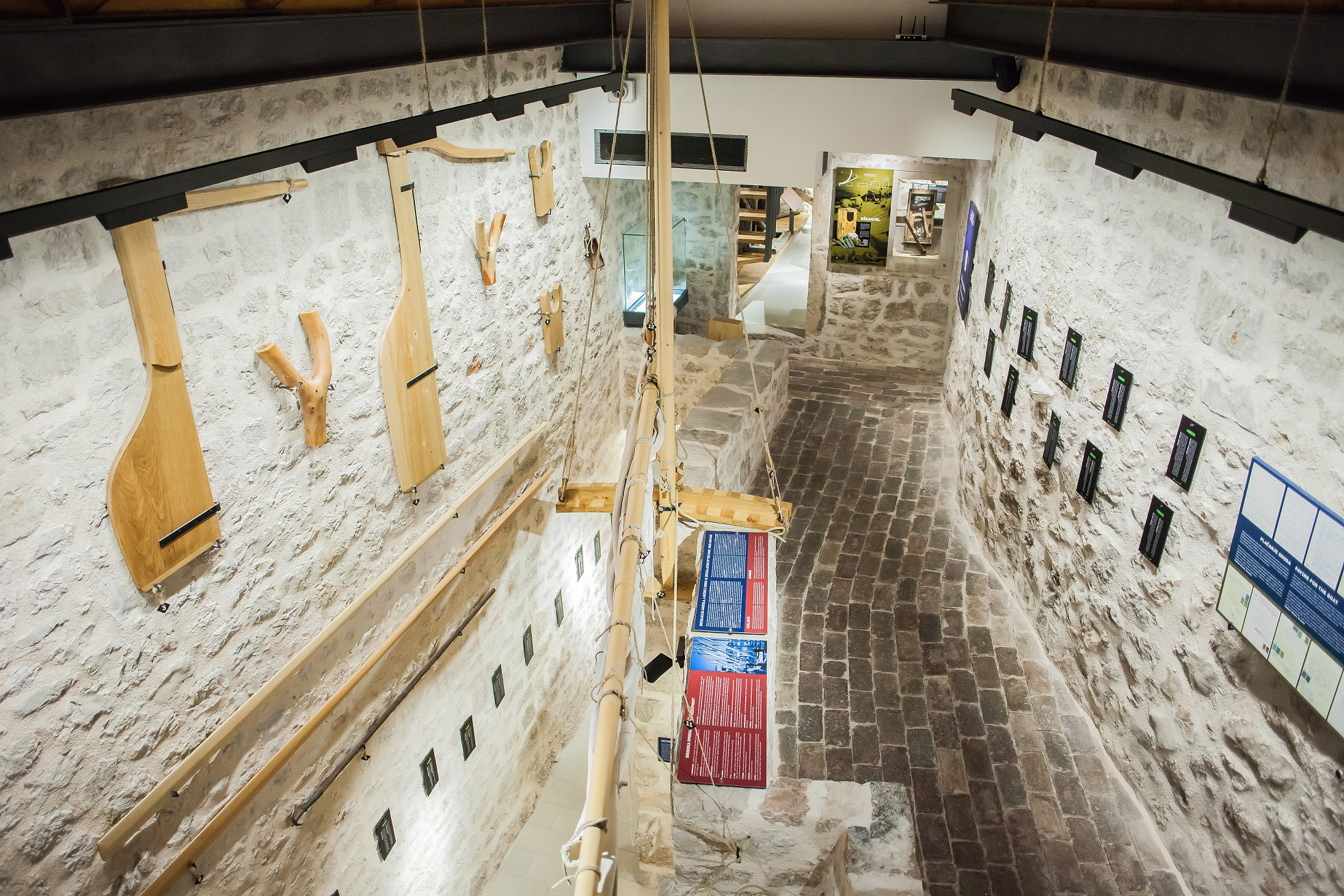 The lateen sail and the boat equipment